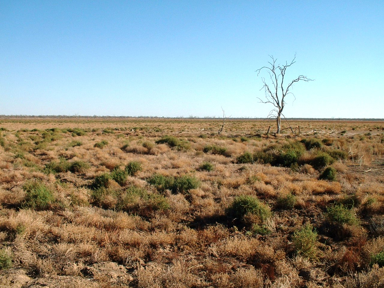 Dried up waterhole in the centre of Lake Pinaroo, near Fort Grey, Sturt National Park, New South Wales.